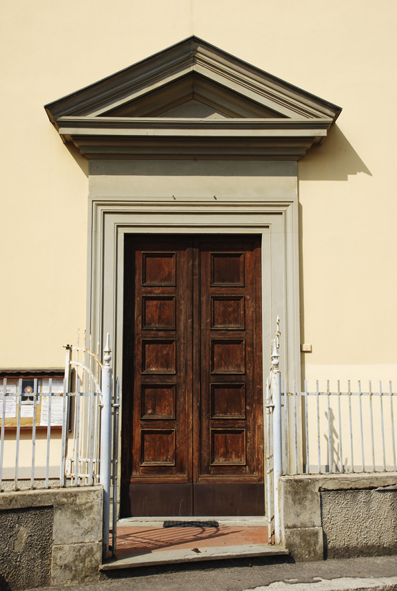 the Church of San Quirico at Legnaia, Florence, Italy. Facade: Portal with Tympanum.